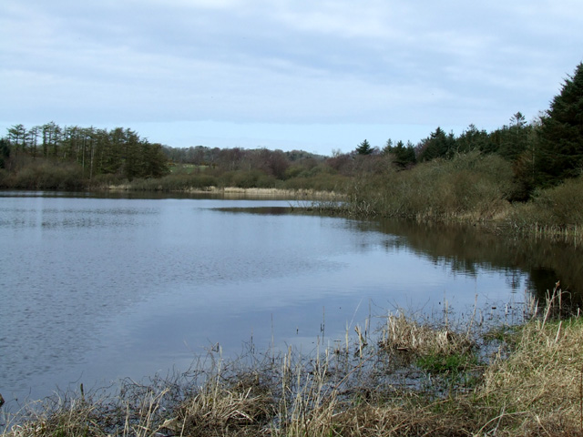 Cefni Reservoir The Northern Edge of the Cefni Reservoir, as seen from the Bird hide on the banks of the reservoir